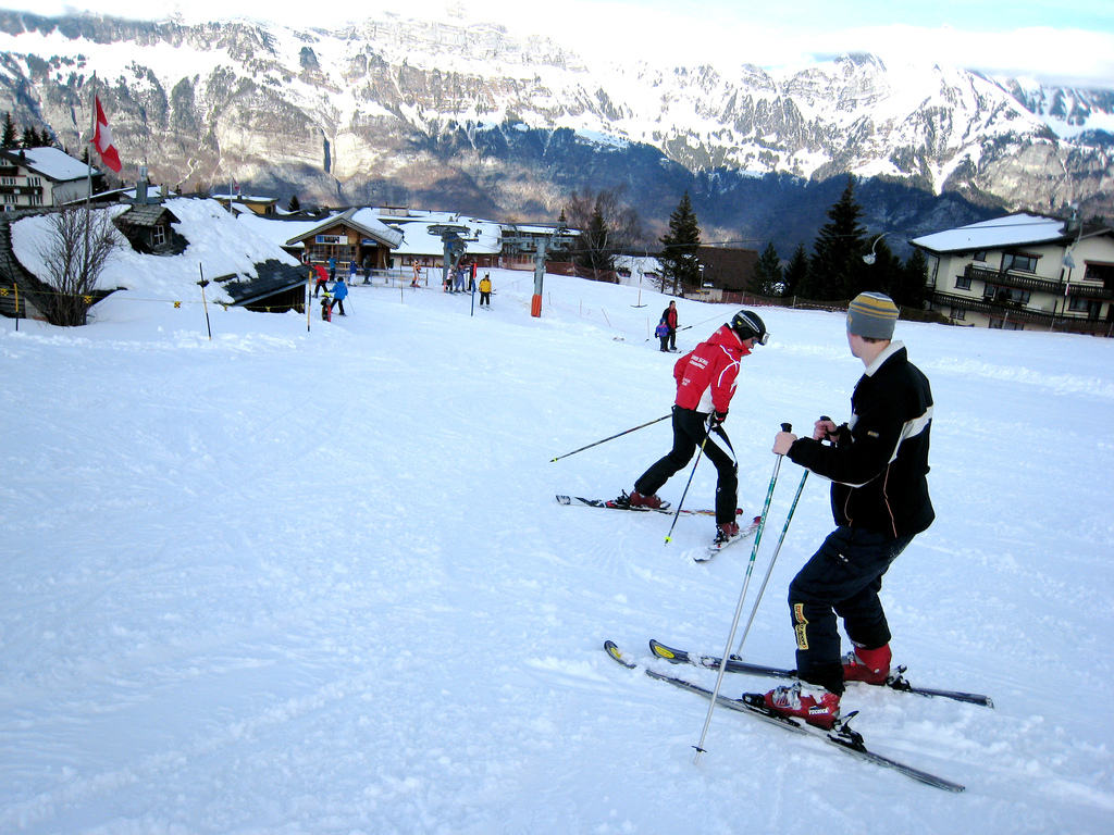 Making a turn using skiplough in a skiing lesson.